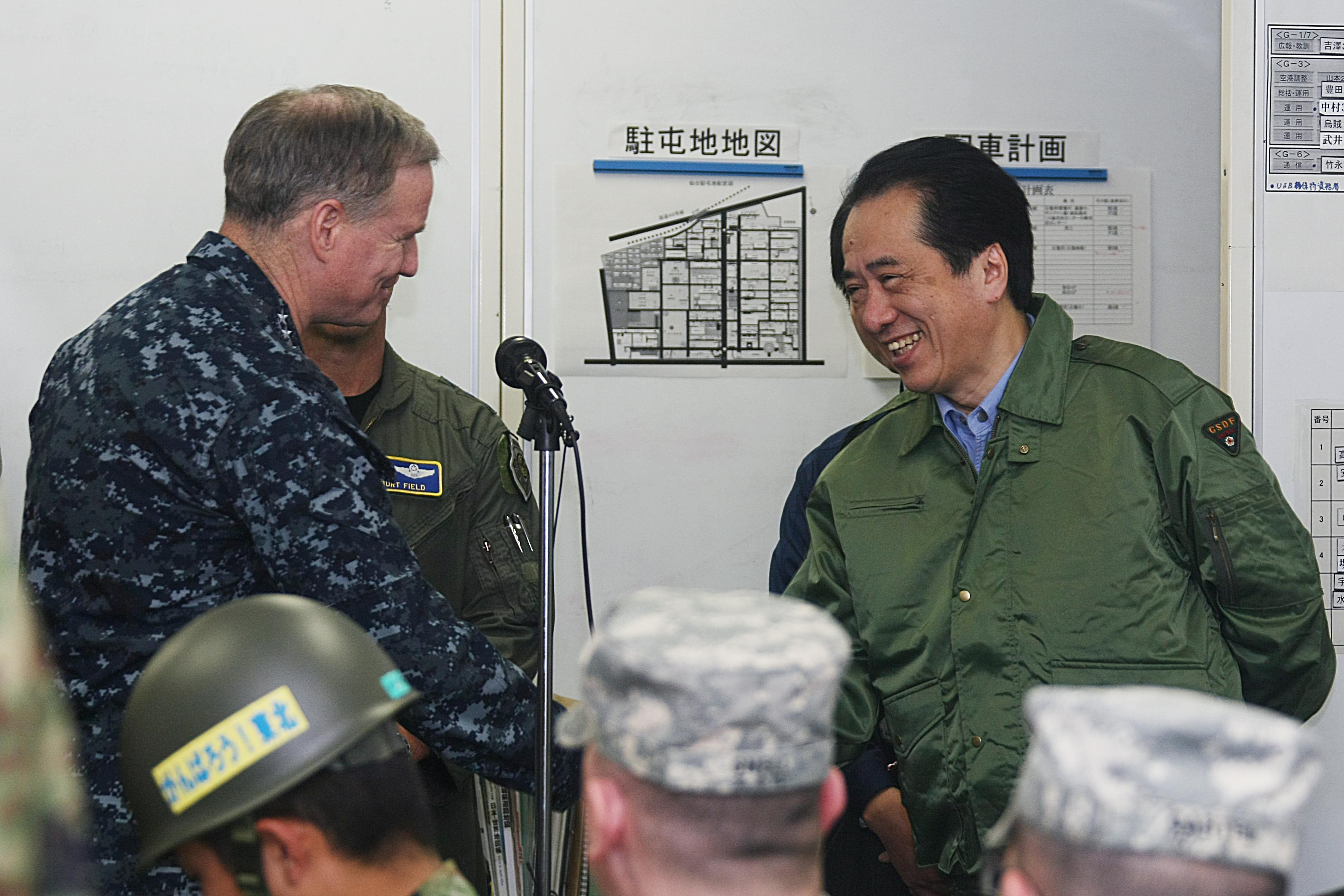 Prime Minister Naoto Kan visited the Joint Task Force - Tohoku at Camp Sendai, Japan. Present, as well, is Adm. Patrick Walsh, commander of the Joint Support Forces - Japan. Kan and Walsh shook hands after their address to the Japanese and American forces who are currently working together as part of Operation Tomodachi. Operation Tomodachi is the active campaign to restore Japan after the Earthquake and Tsunami that devastated Honshu's North-Eastern coast, March 11. U.S. Army Japan Photo by Jose Sanchez Alonso Date Taken:04.10.2011 Location:CAMP SENDAI, MIYAGI, JP Related Photos